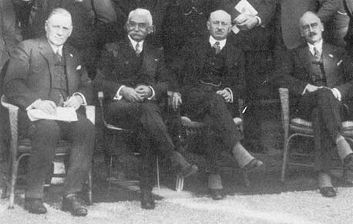 Four Presidents of the Olympic Committee at the Olympic Congress 1921 in Lausanne, from left to right: Sigfrid Edström, Pierre de Coubertin, Henri de Baillet-Latour, Godefroy de Blonay photography, adapted reproduction, no restrictions on use Copyright: free of charges